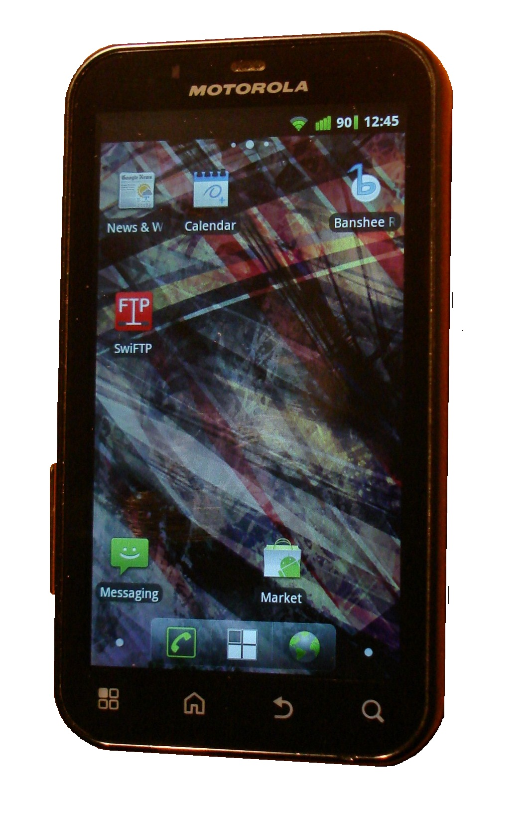 Motorola Defy running CyanogenMod 7